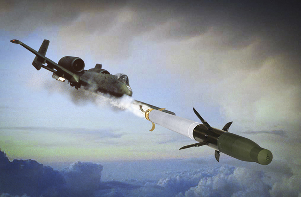 The 40th Flight Test Squadron completed another first in February when an A-10 Thunderbolt II fired a guided rocket that impacted only inches away from its intended target. The 2.75 diameter, 35-pound, laser-guided rocket is known as the fixed-wing Advanced Precision Kill Weapon System II. Before the Thunderbolt test, the rocket had proved effective in Afghanistan combat operations when fired from Marine helicopters. (Courtesy illustration)